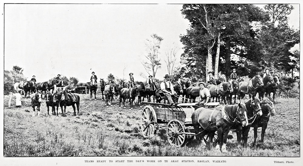 1905 Teams ready to start the day's work on Te Akau station